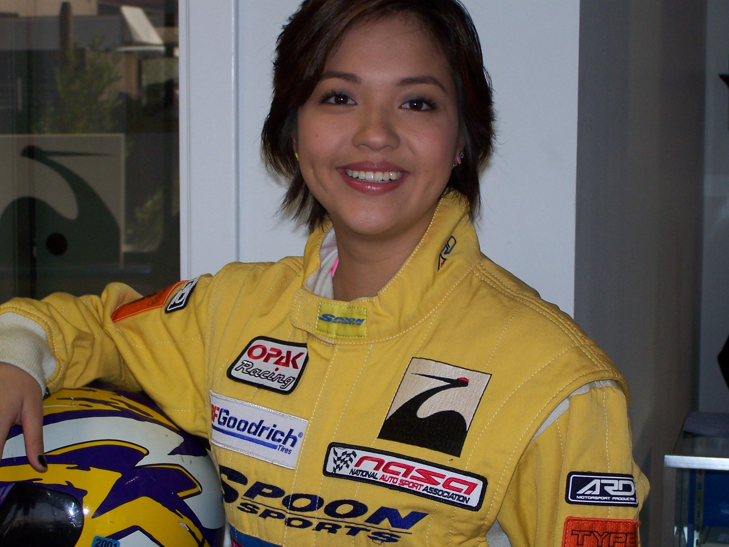 Gaby De La Merced at the 25 Hours of Thunderhill 2009, in Willows, CA driving for Spoon Sports